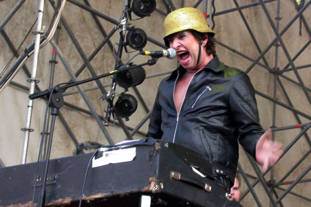 Pål Pot Pamparius of Turbonegro.